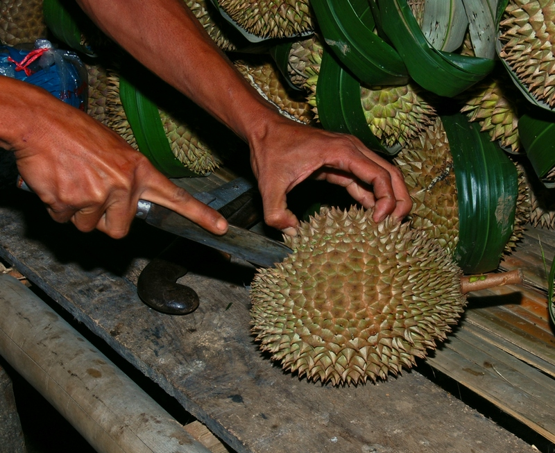 Opening durian (Durio zibethinus) fruit. Cigudeg, Bogor, West Java, Indonesia.